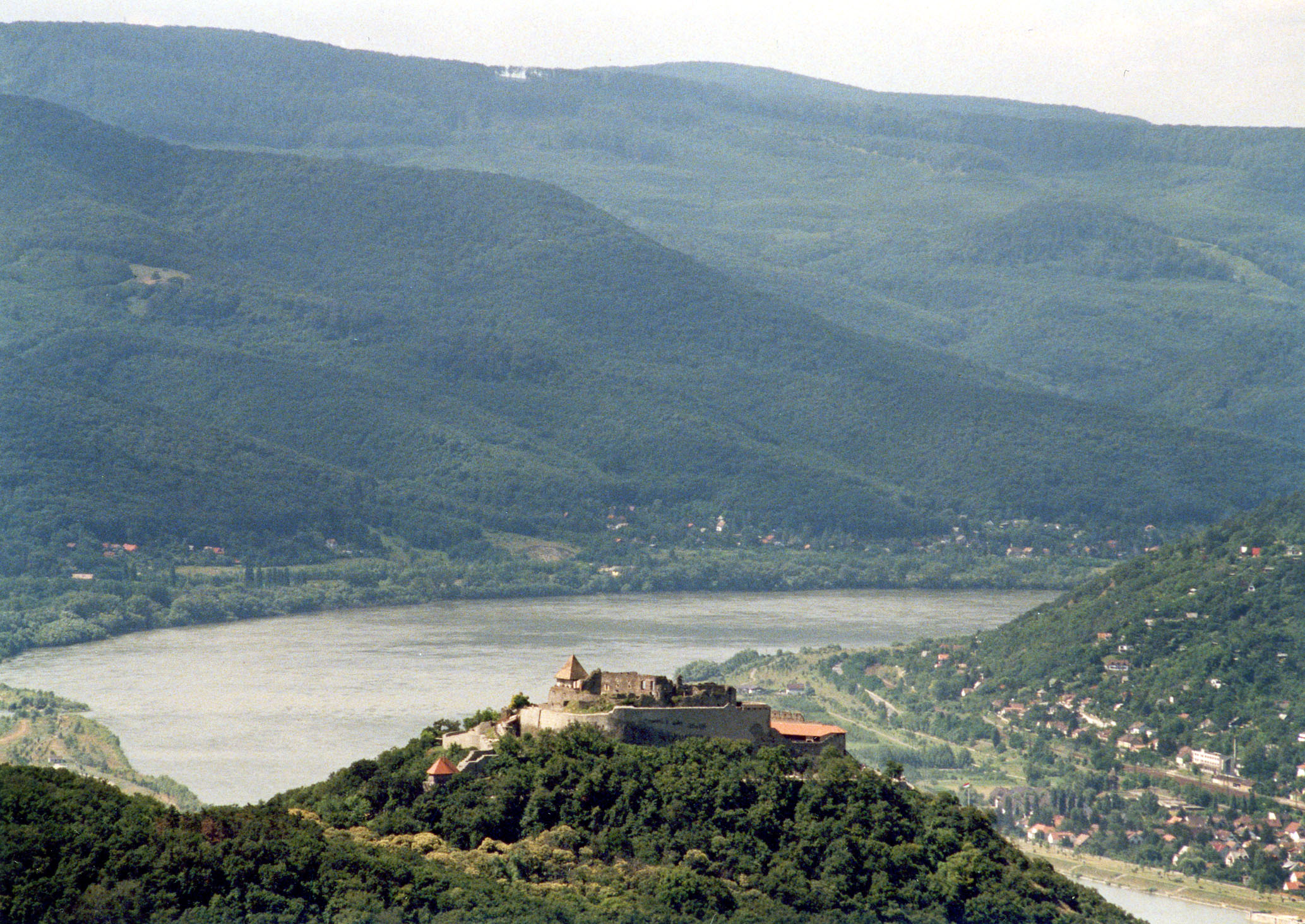 Dunakanyar - Danube, Hungary, aerial photography